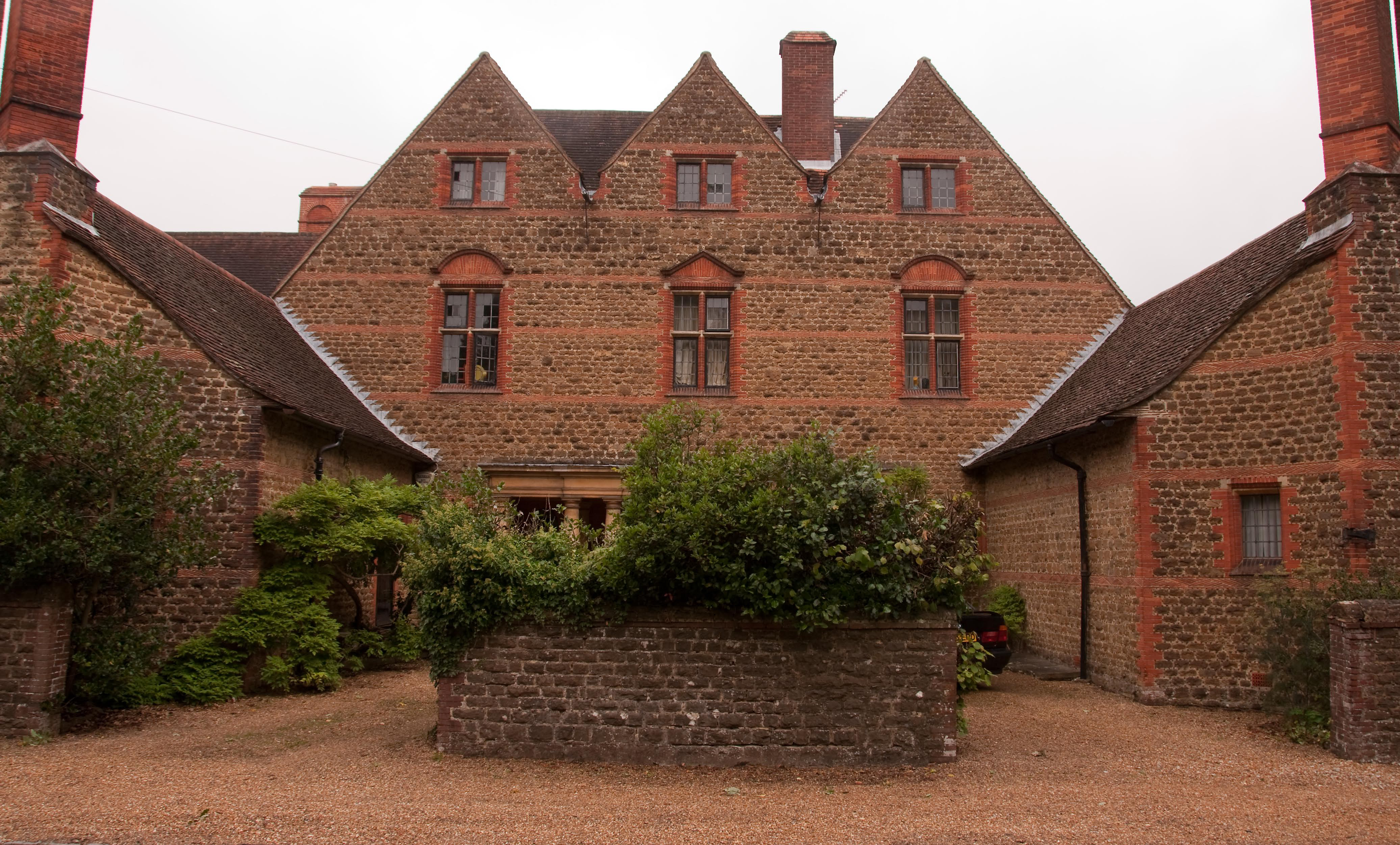 Tigbourne Court Central Triple Gable Range seen looking Northeast